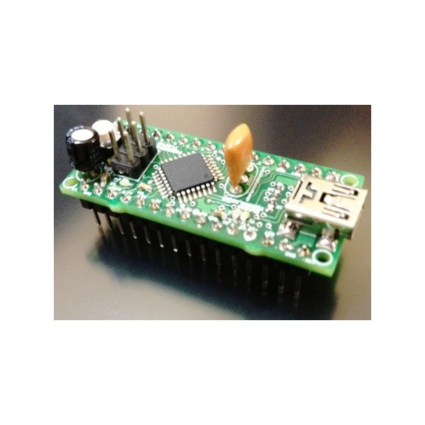 Freeduino nano designed in India, completely breadboard friendly, elegant and compact design..Build your project and devices using Freeduino Nano